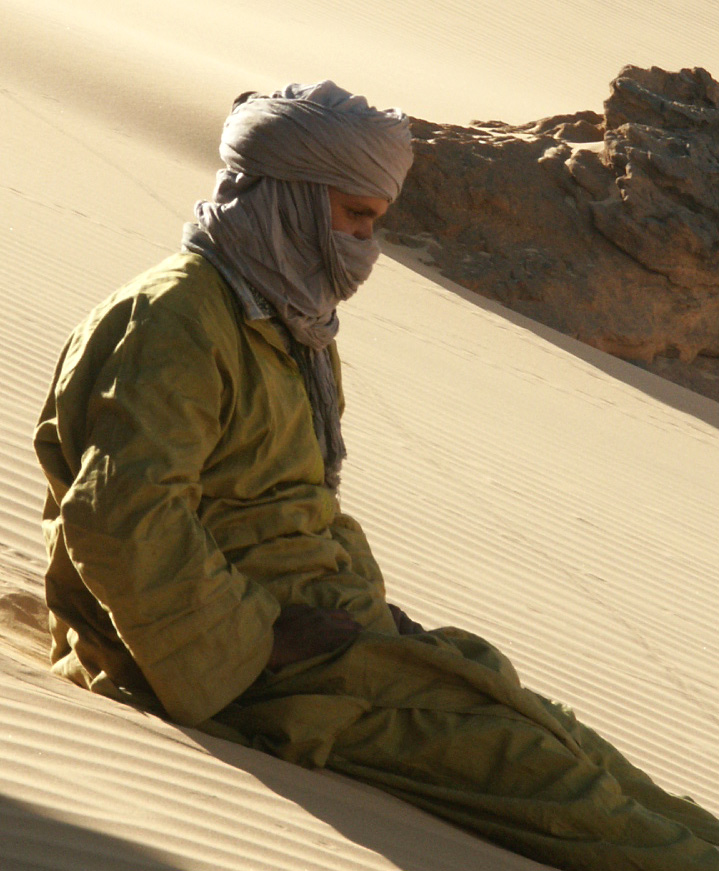 Tuareg from the Hoggar (Algeria) sitting in the sand